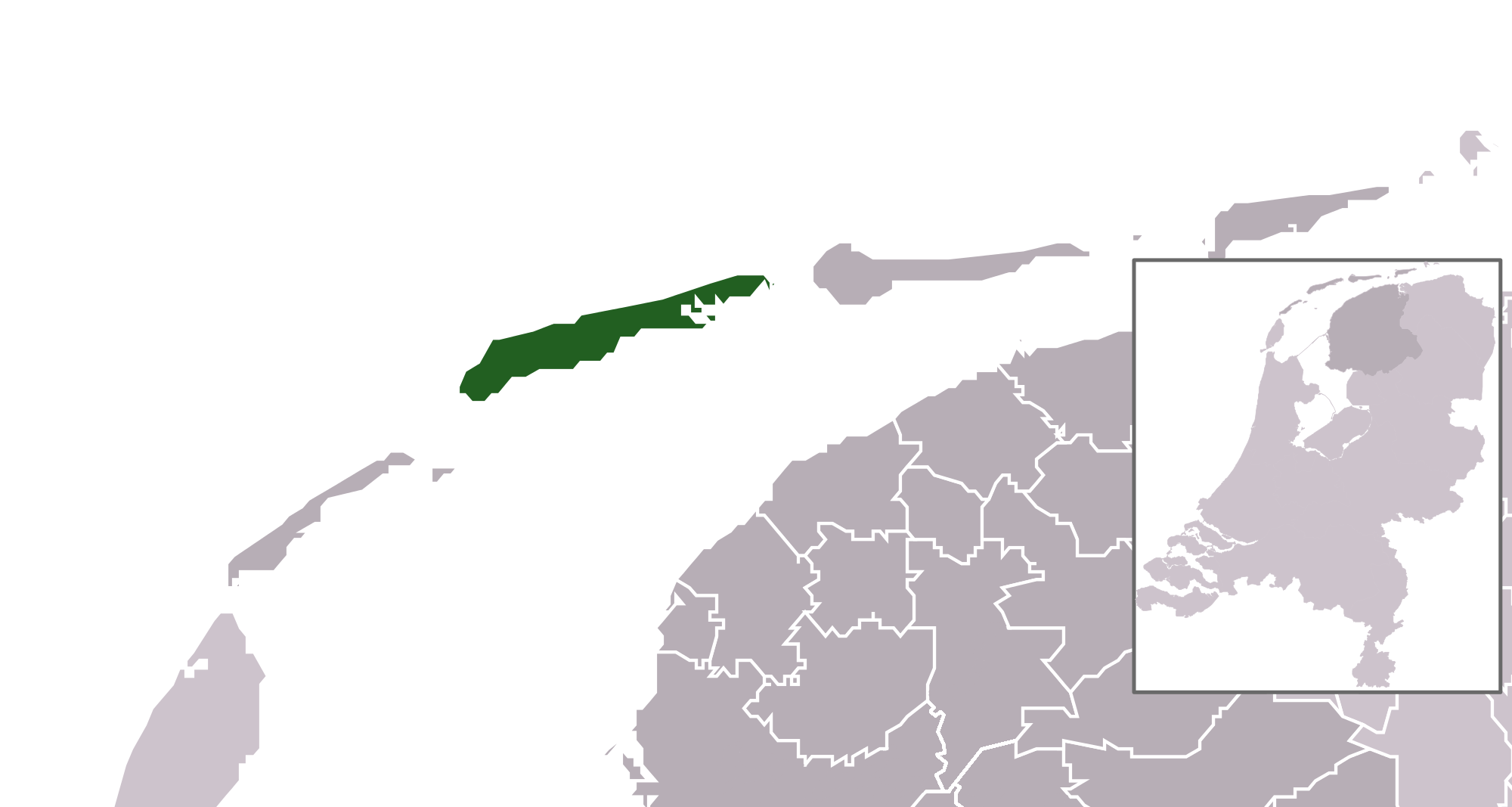 Location maps for the 441 municipalities in the Netherlands. Boundaries 1/1/2009 Automatically generated with script File name contains "Municipality code" (CBS-code) as specified in: [1] Created in svg using coordinate data derived from ESRI data published by Centraal Bureau voor de Statistiek, Voorburg/Heerlen. ([2]) Color coding and original design (slightly adpated by me) by user Mtcv (2006/2007) ([3]) Updated until January 1, 2014 The copyright holder of this file, Centraal Bureau voor de Statistiek, allows anyone to use it for any purpose, provided that the copyright holder is properly attributed. Redistribution, derivative work, commercial use, and all other use is permitted. Attribution: Centraal Bureau voor de Statistiek This work is free and may be used by anyone for any purpose. If you wish to use this content, you do not need to request permission as long as you follow any licensing requirements mentioned on this page.